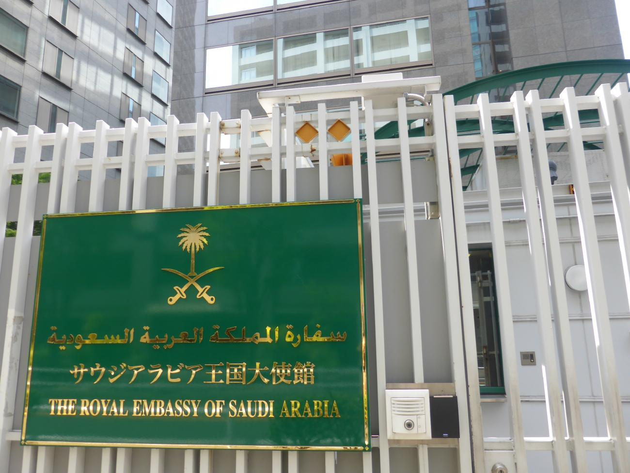 Plaque of the Royal Embassy of Saudi Arabia in Tokyo